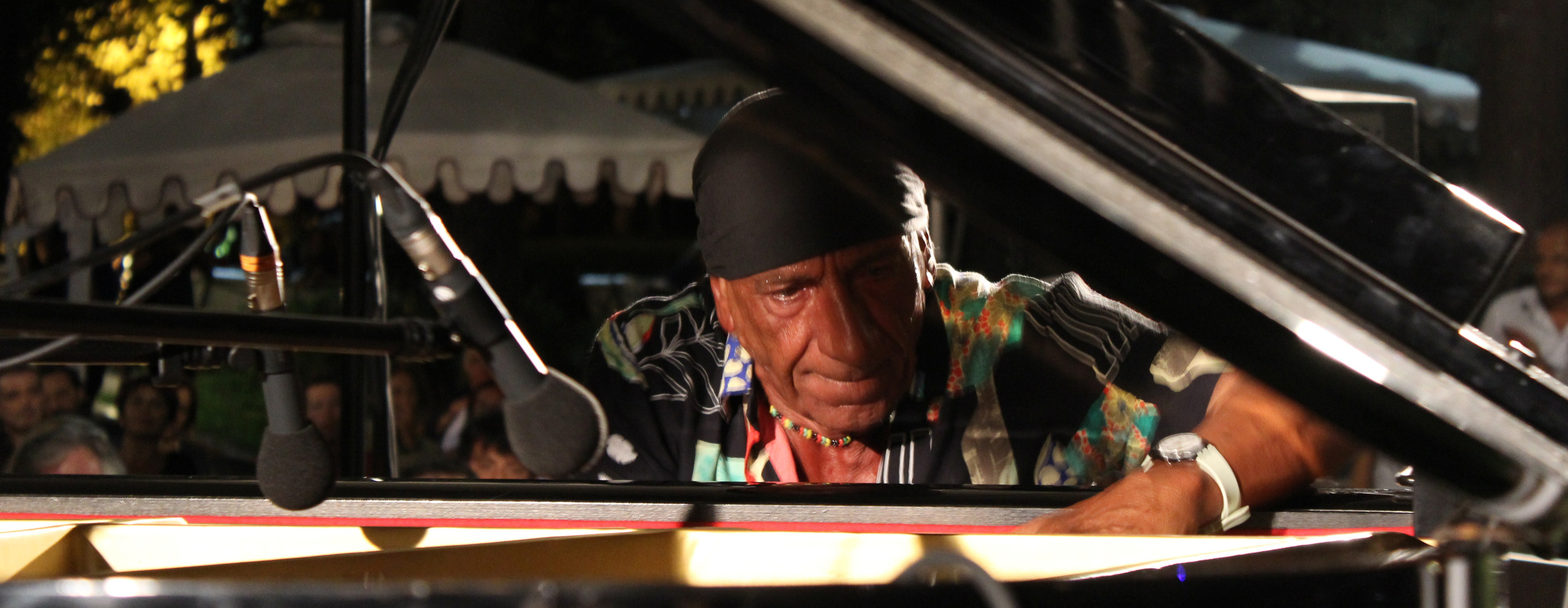 Antonello Salis at Pozzuoli Jazz Festival 2011